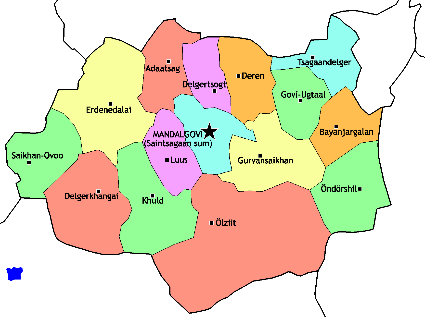 Map of the Dungovi aimag with the sums